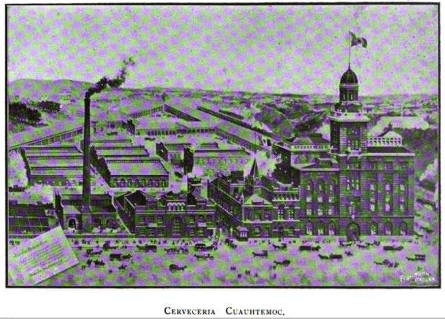 Cuauhtemoc Brewery in Monterrey, Mexico. This company was established in 1889. Today still working as Brewery and lodges two museums.